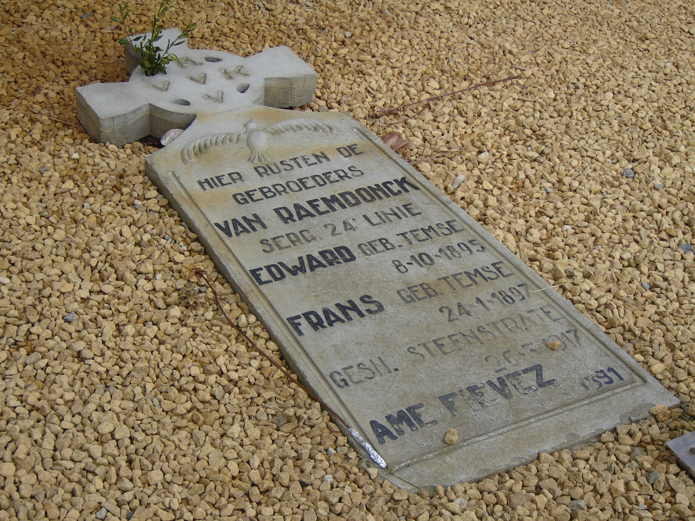 Gravestone of Gebroeders Van Raemdonck ("the Van Raemdonck Brothers" and Amé Fiévez) in the crypt of the IJzertoren in Kaaskerke. Kaaskerke, Diksmuide, West Flanders, Belgium